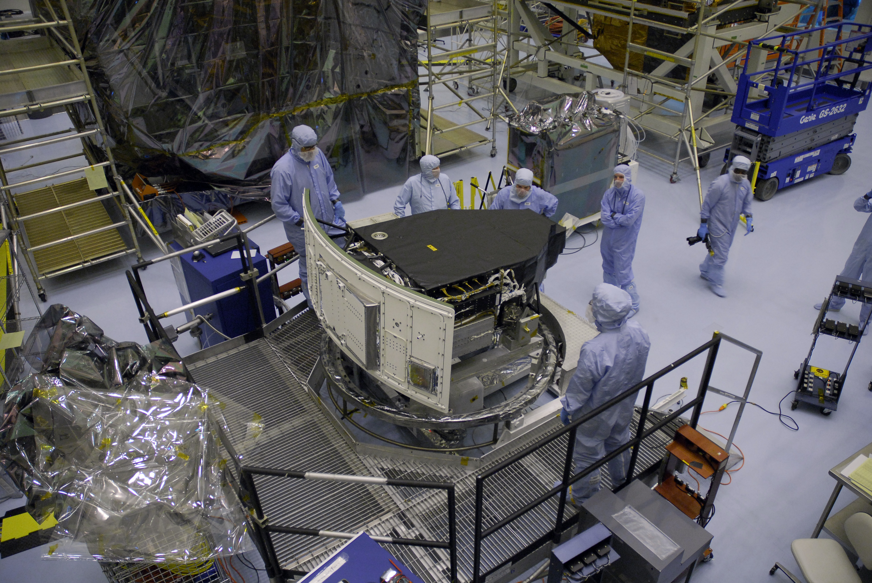 In the Payload Hazardous Servicing Facility at NASA's Kennedy Space Center, technicians wait for the rotation of the Wide Field Camera 3, or WFC3, in order to attach a crane. The WFC3 will be transferred to the Super Lightweight Interchangeable Carrier.